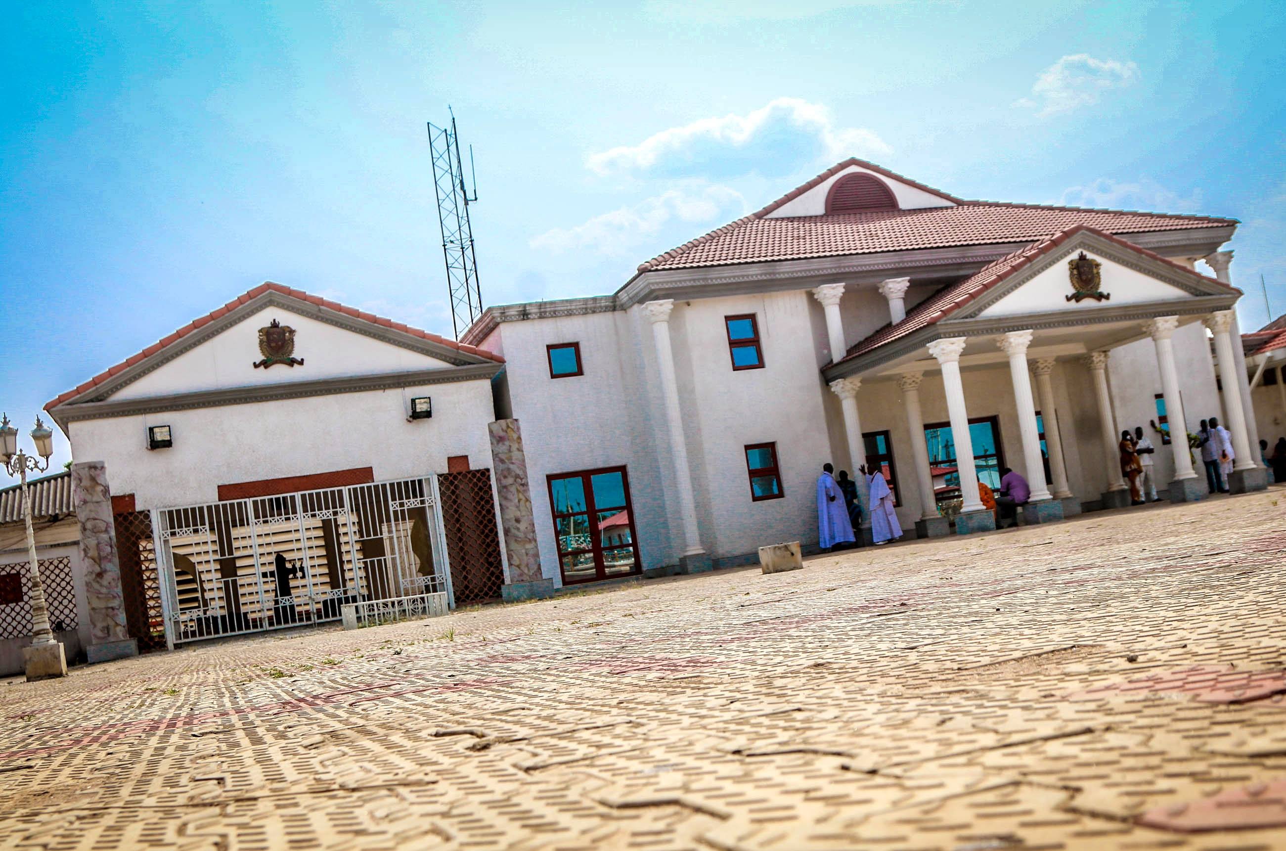 Royal Palace of the 'Oba of Benin'. It is notable as the home of the Oba of Benin and other royals. The palace, built by Oba Ewedo (1255AD – 1280AD), is located at the heart of ancient City of Benin. It was rebuilt by Oba Eweka II (1914–1932) after the 1897 war with the British it was destroyed. The palace was declared a UNESCO Listed Heritage Site in 1999. The Royal Palace of Oba of Benin is a celebration and preservation of the rich Benin culture. Most of the visitors to the palace are curators, archaeologists or historians and photographers.